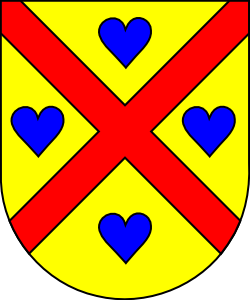 Coat of Arms of Orsbeck